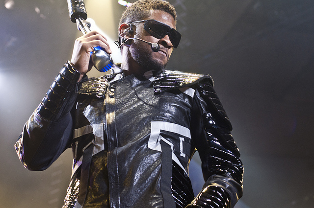 Usher at Madison Square Garden